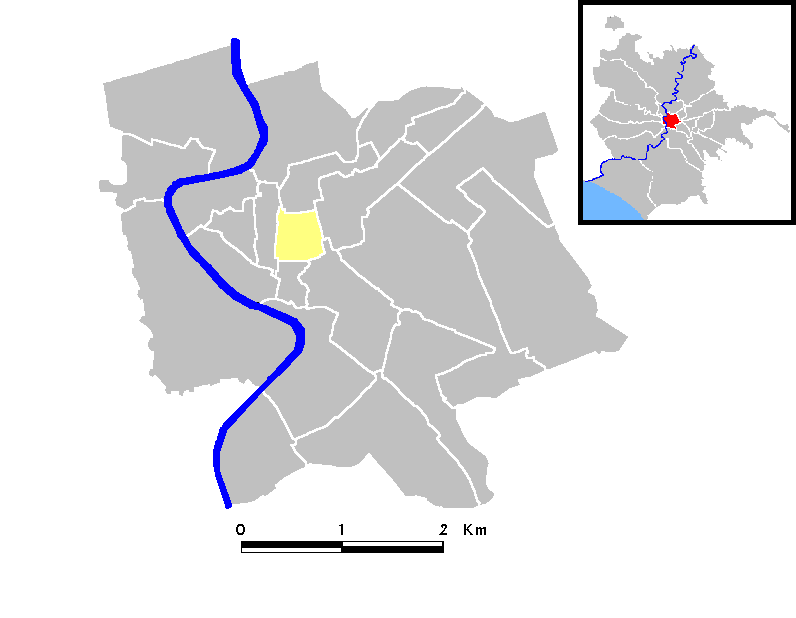 Locator maps of Rome (rioni)